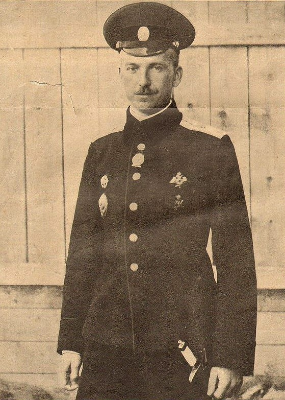 Pyotr Nikolayevich Nesterov in the new pattern uniform.